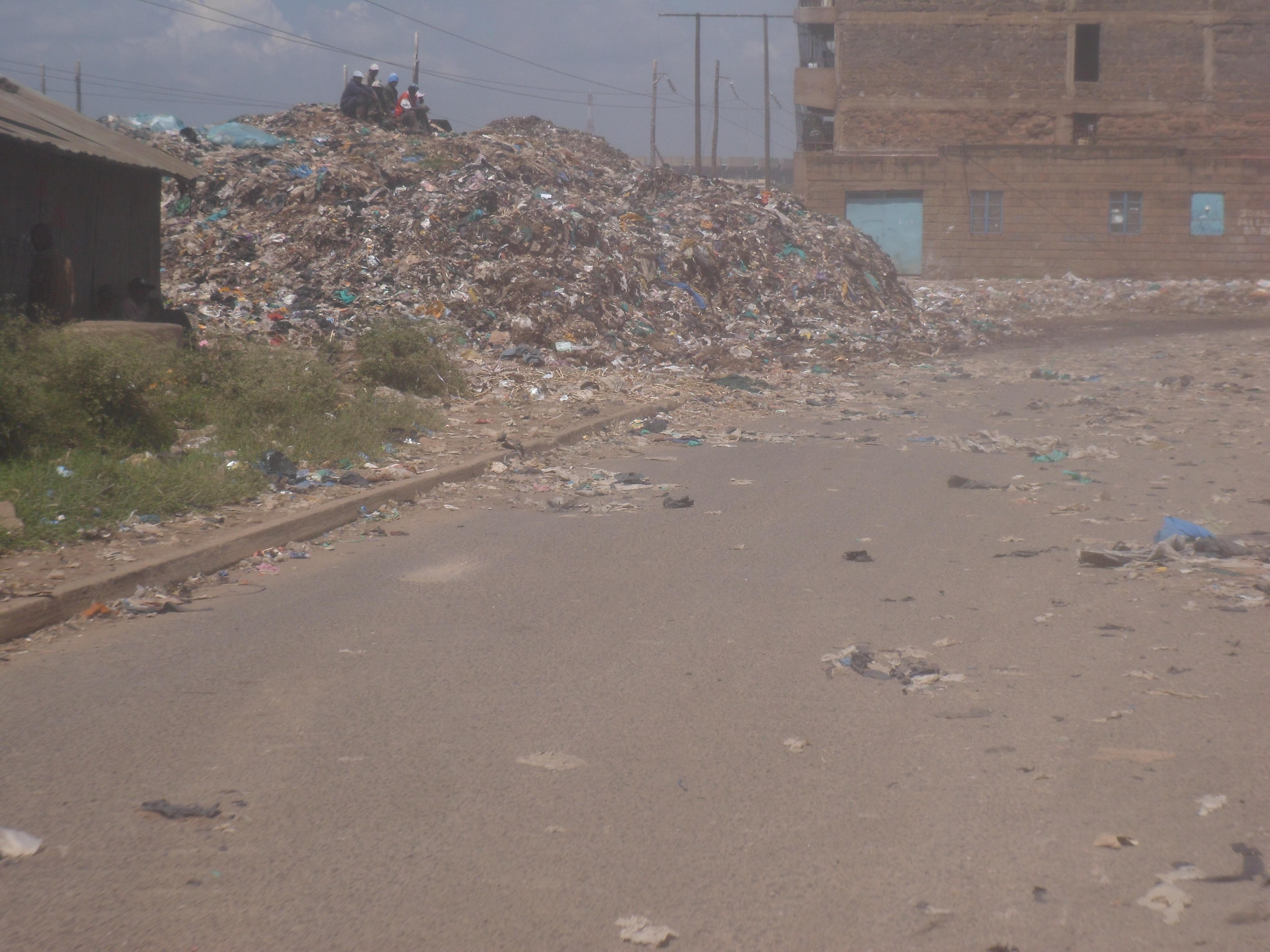 Kenya - Dandora dumping site